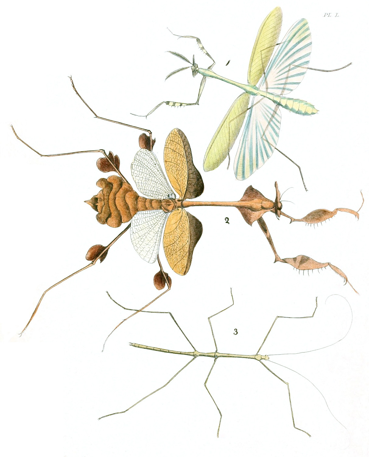 Mantids, Mantidae, and a Walking-stick, Phasmatodea